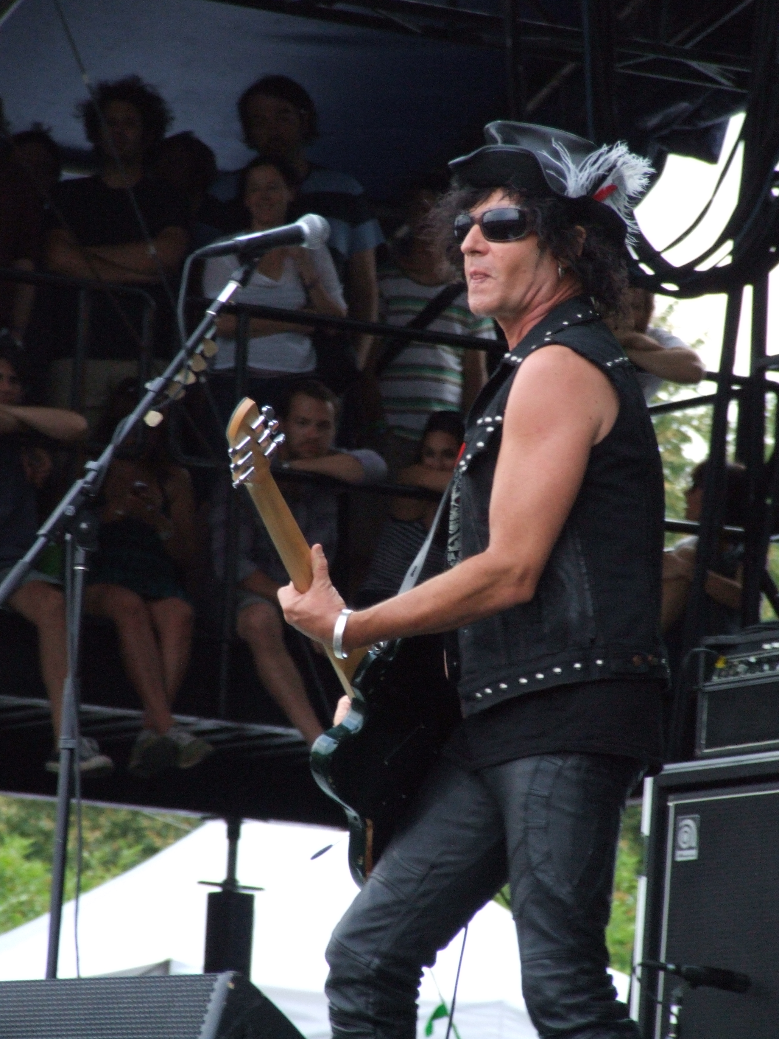 Lollapalooza 2008 Day 3 August 3'rd Grant Park Chicago